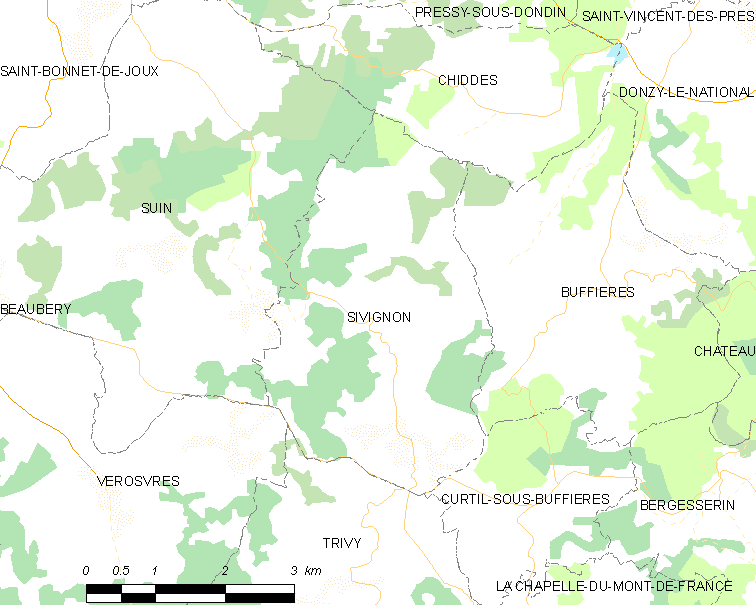 Map of French municipality